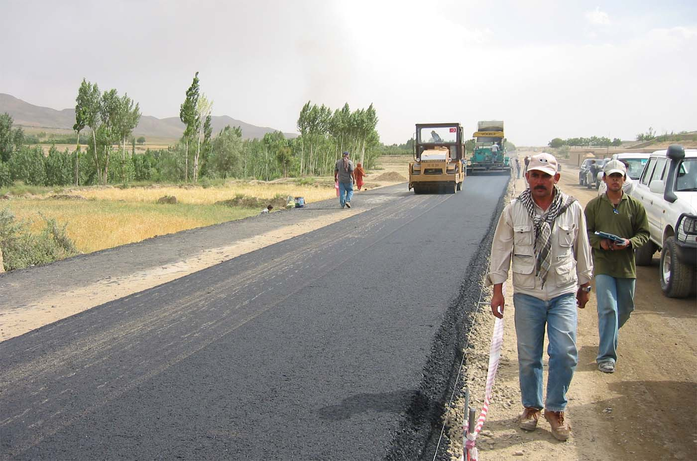 Afghanistan: Layer of Asphalt Is Compacted Along Kabul-Kandahar Road Reconstruction of the country’s principal road system is the key to Afghanistan’s economic recovery. Rebuilding the transportation infrastructure will enable the movement of people, aid resources, and farm and trade goods–all essential to Afghanistan’s development. The United States has provided about $190 million, through USAID, to reconstruct a 300-mile segment of Highway 1.